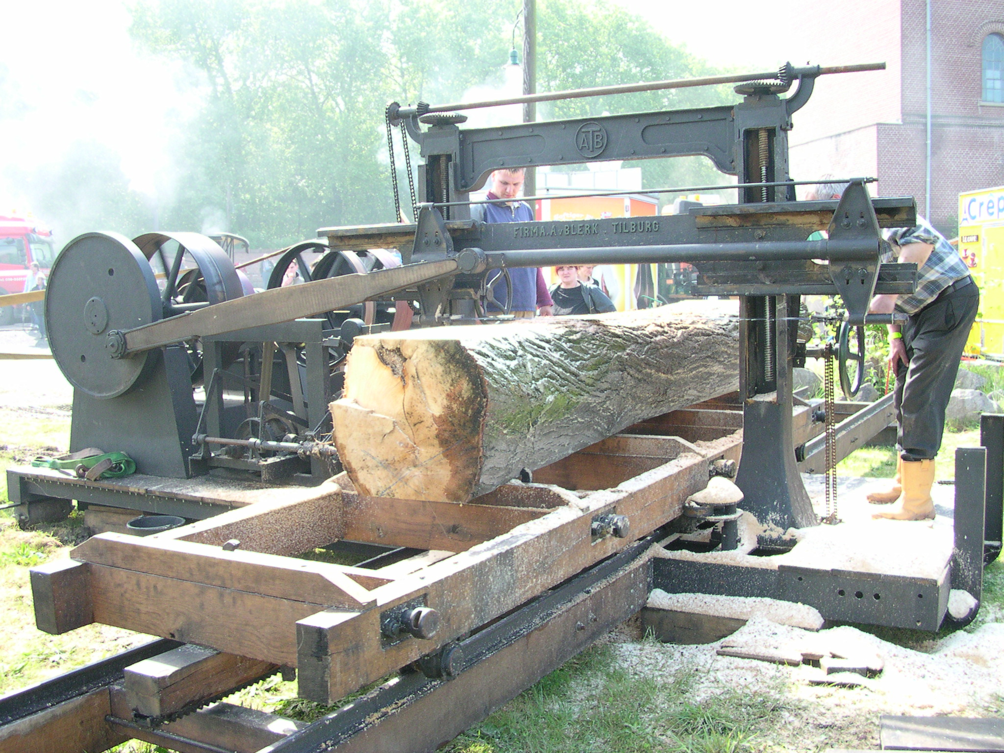 5th steam festival in Bochum, Germany 2007